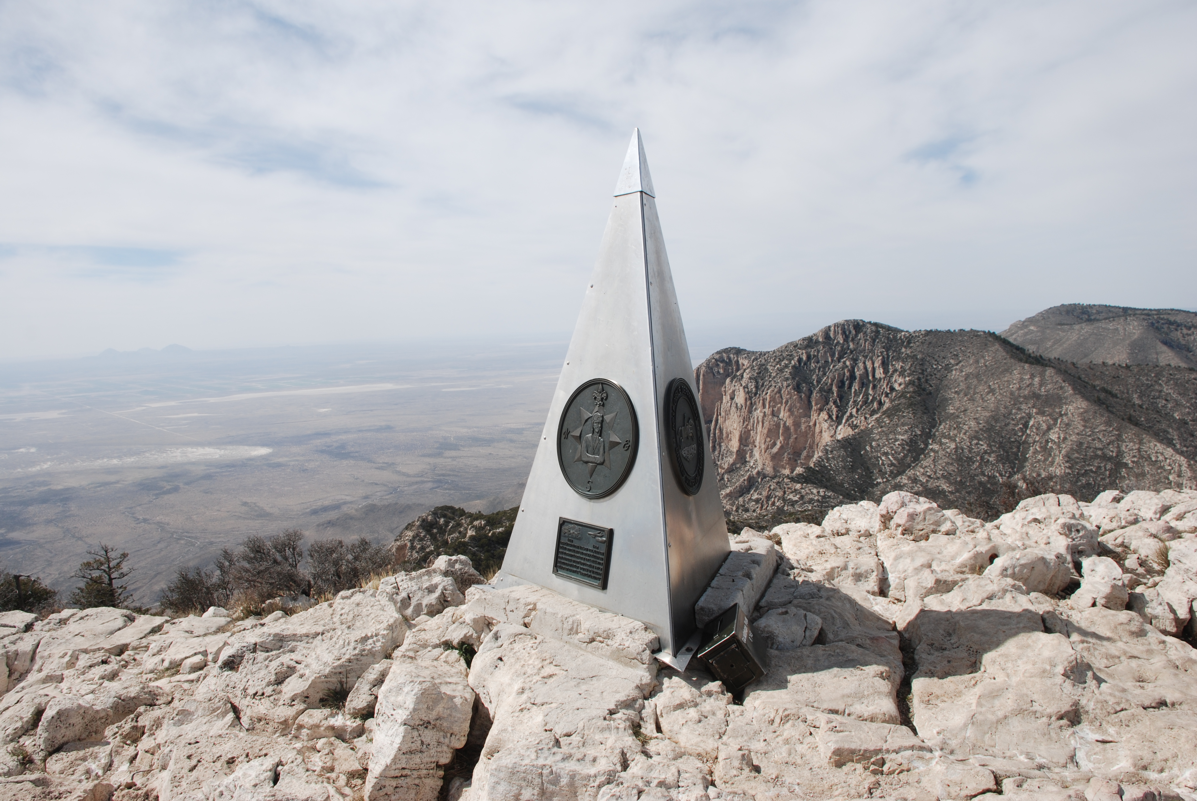 Summit of the Guadalupe Peak, Guadalupe Mountains National Park, Texas, USA